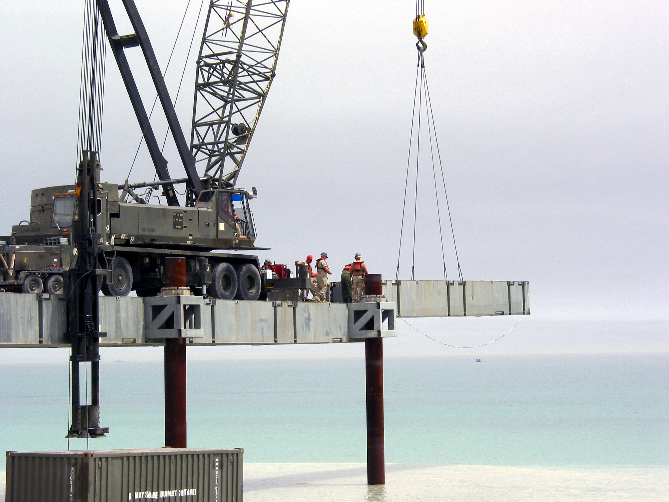 Camp Patriot, Kuwait (Apr 4, 2003) -- U.S. Navy Seabees assigned to Amphibious Construction Battalions One and Two prepare to place the next roadway section being used in the building of the Elevated Causeway System-Modular (ELCAS (M)) structure at Camp Patriot. ELCAS (M) is an expeditionary pier facility for use where port facilities are damaged or nonexistent, or where surf conditions preclude direct discharge of cargo and equipment ashore. ELCAS (M) provides the capability to off-load containers from lighters beyond the surf zone to shore via wheeled vehicles on the elevated roadway structure. ACB-1 and ACB-2 have been deployed in support of Operation Iraqi Freedom, the multi-national coalition effort to liberate the Iraqi people, eliminate Iraq's weapons of mass destruction, and end the regime of Saddam Hussein. U.S. Navy photo by Journalist 1st Class Joseph Krypel. (RELEASED)